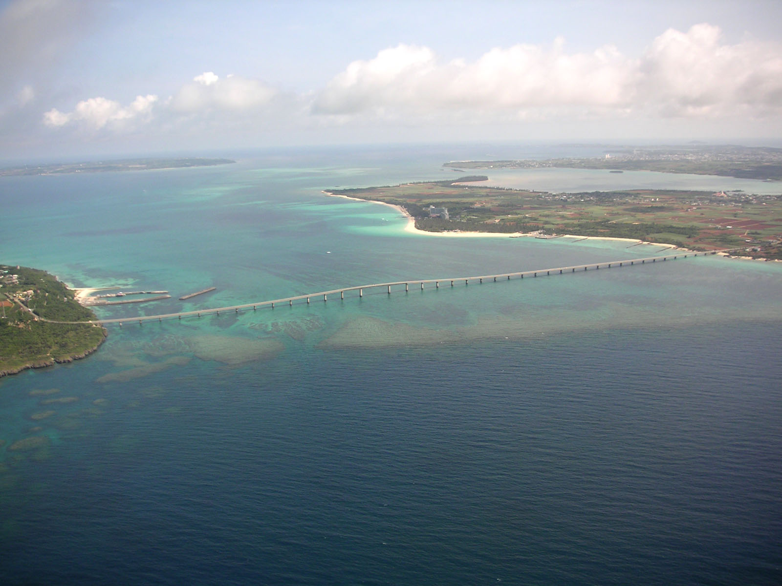 Kurima Bridge between Miyako Island and Kurima Island, Japan